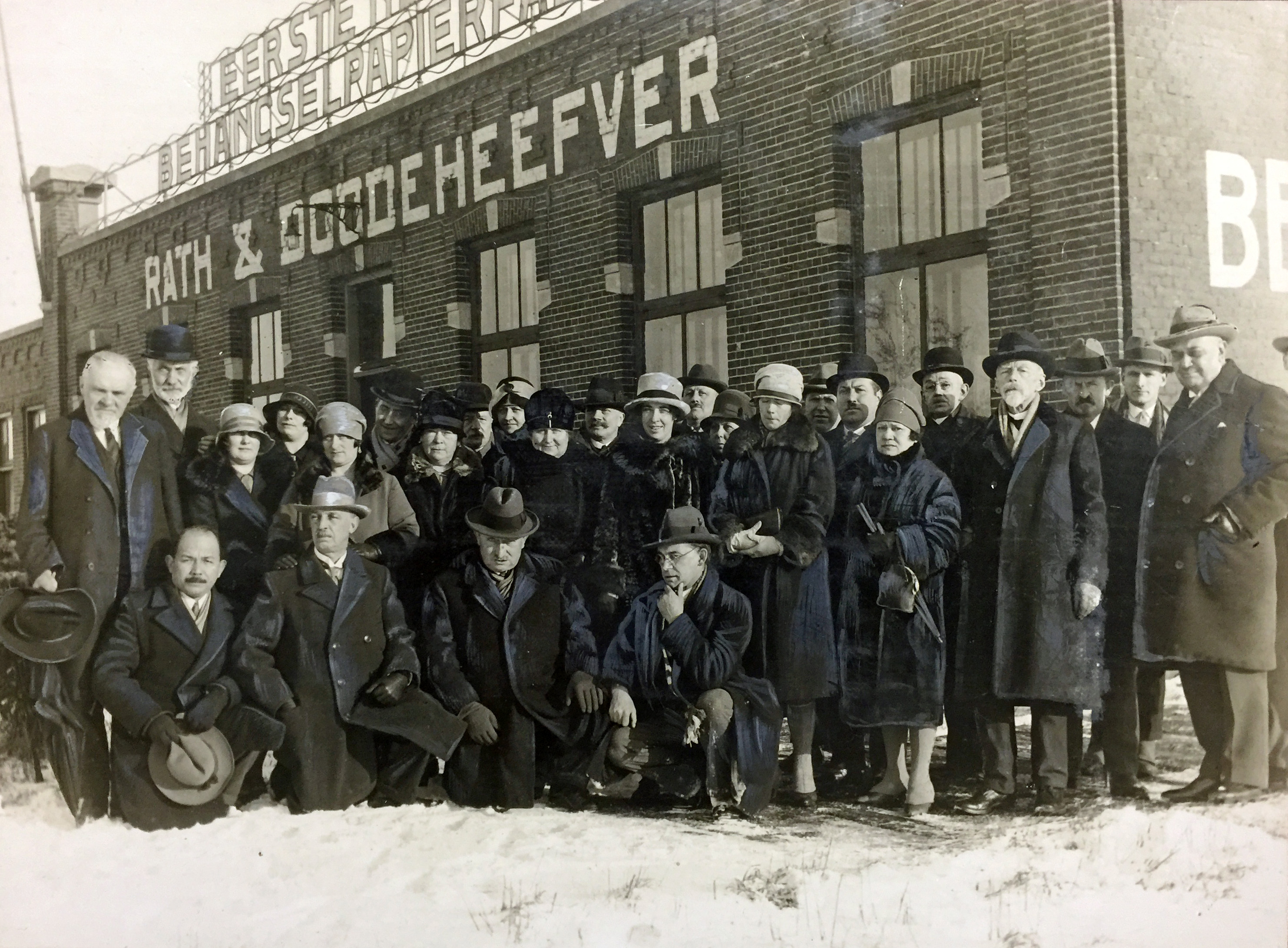 Dutch wallpaper manufacturer N.V. Rath & Doodeheefver